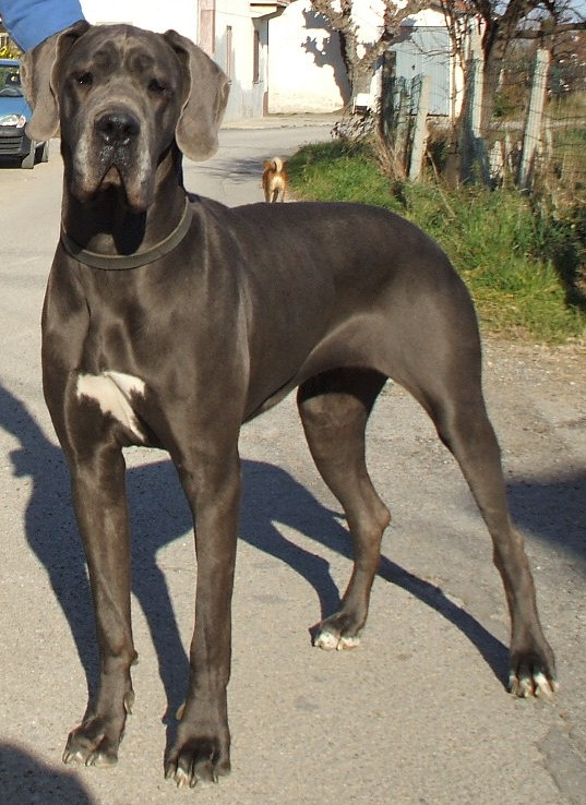 Great Dane